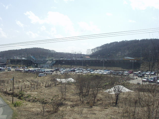 Kaminopporo Station. Kitahiroshima, Hokkaidō, Japan. The black horizontal is a shadow of the platform. Parking area is on the front of the station. A white station building stands center-left in this picture. Snow leaves as white small piles.